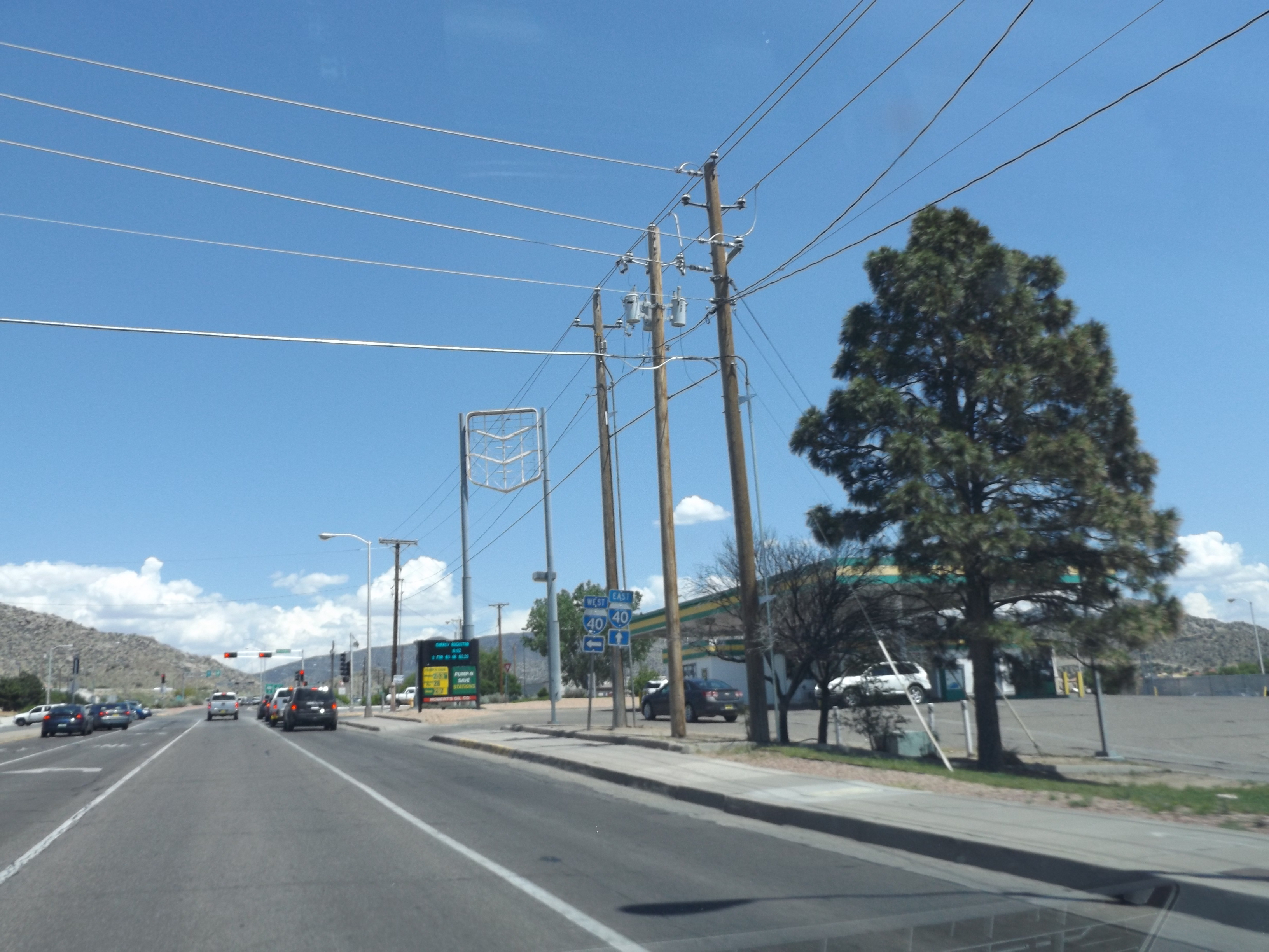 Old US Route 66 approaching New Mexico State Road 333 and New Mexico State Road 556 in Albuquerque